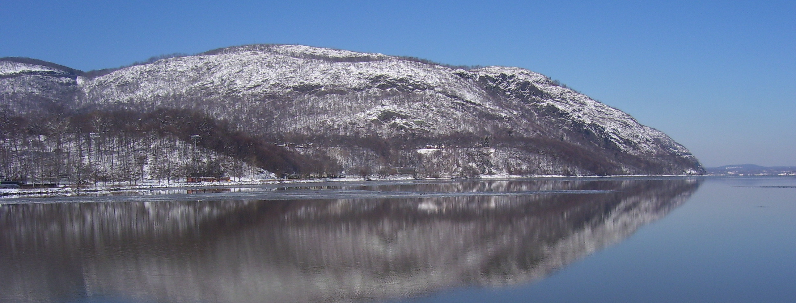 Crow's Nest Mountain in NY during winter reflecting on the Hudson River as seen from South Dock landing at the United States Military Academy